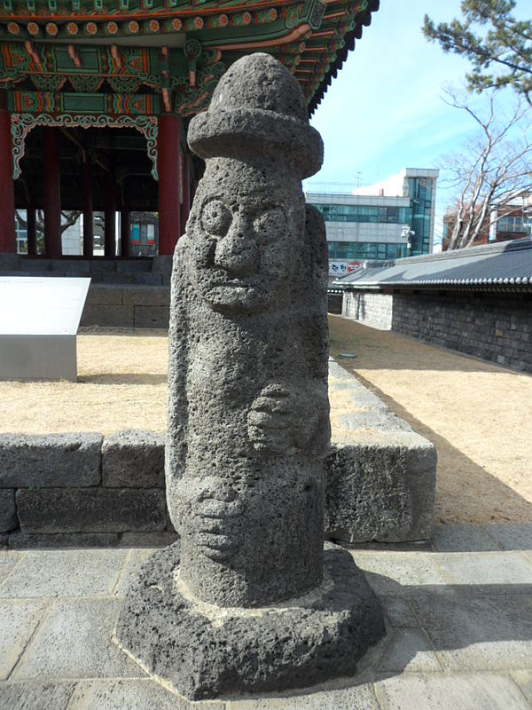 Dolhareubang in front of Gwandeokjeong.